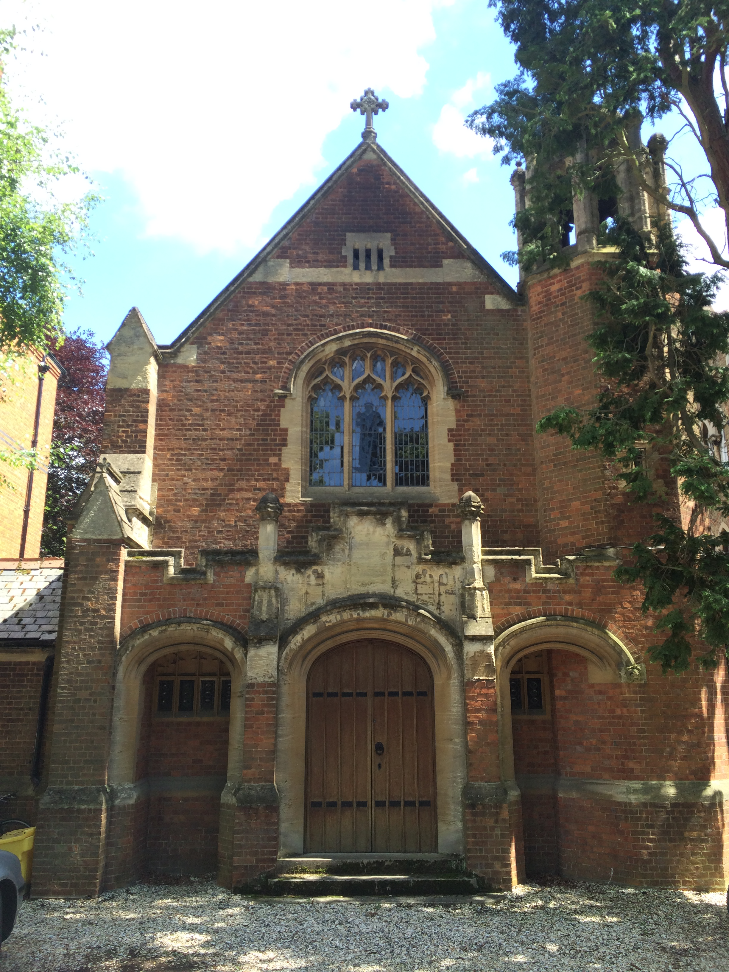 The west front of the chapel